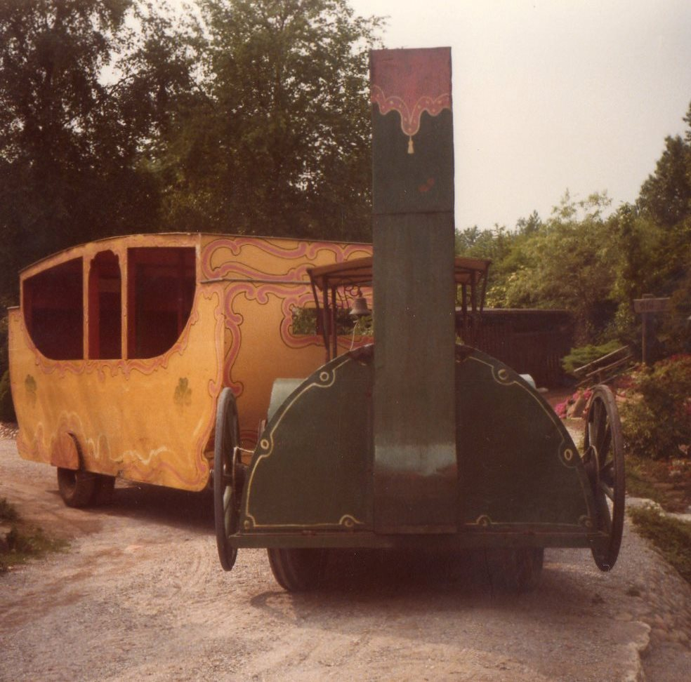 Tourist train, Jespershus Blomsterpark, Jylland, Danmark